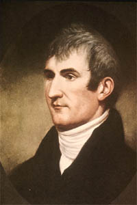 Portrait of Meriwether Lewis